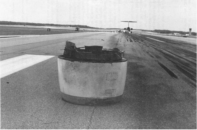 Delta Air Lines Flight 1288 N927DA